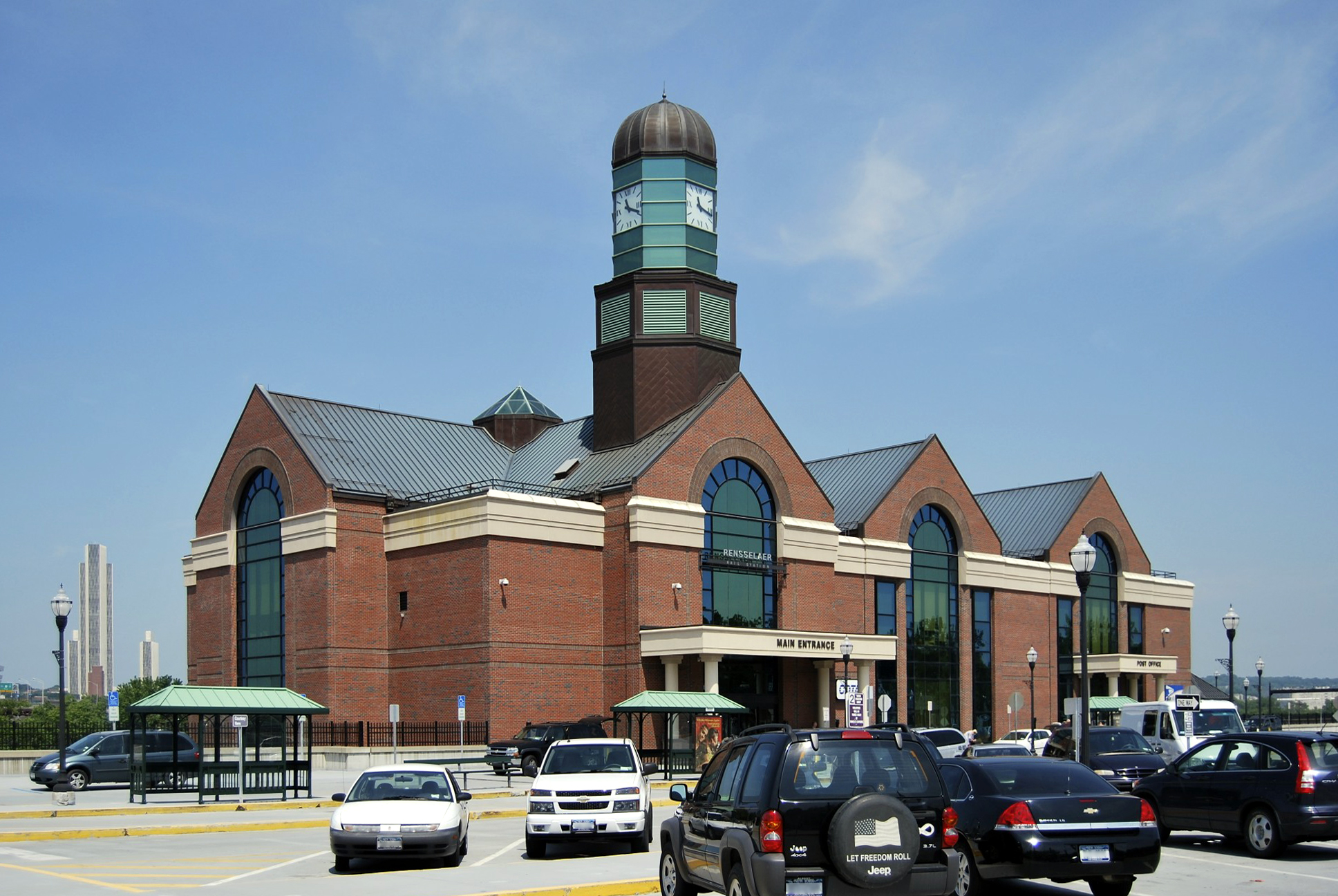 Albany-Rensselaer Rail Station, the main passenger train station serving Albany, New York. The station itself is located in the city of Rensselaer, across the Hudson River from Albany. Behind the station can be seen the Corning Tower and the Empire State Plaza.